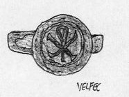 Sketch of a bronze ring with christian symbol, 4, Jhdt.n.Chr., found in monastery Niedernburg, Passau, (Germany).